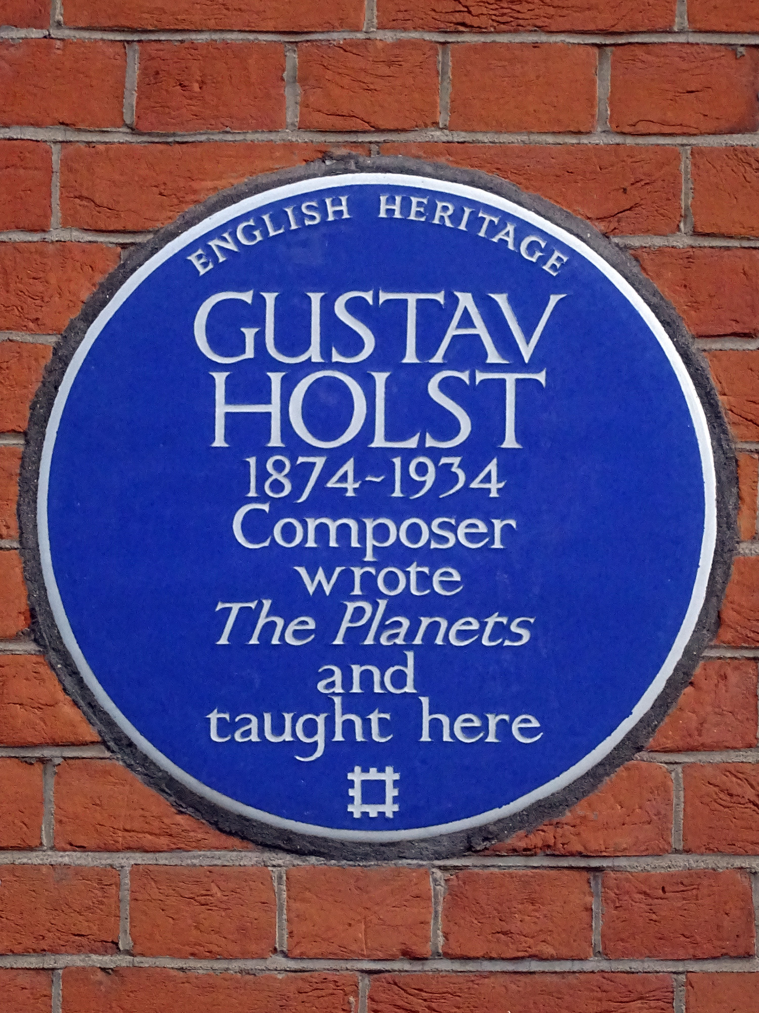 Blue plaque erected in 2004 by English Heritage at St Paul's Girls' School, Brook Green, London W6 7BS, London Borough of Hammersmith and Fulham